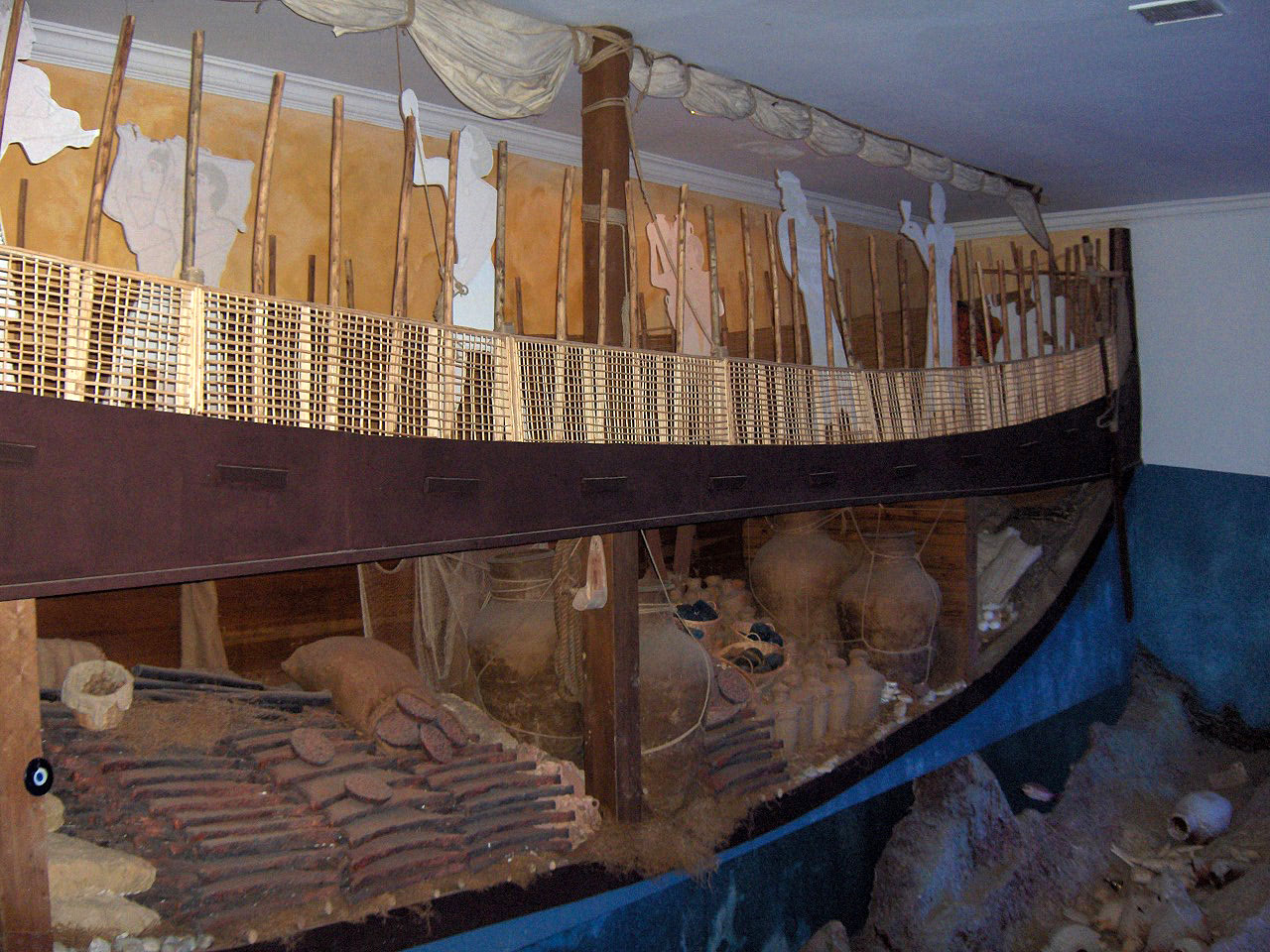 real-size replica; Uluburun shipwreck, St. Peter's castle, Bodrum, Turkey